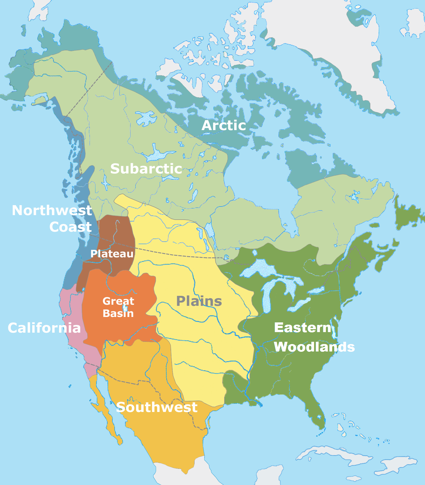 Map of traditional culture area of North America